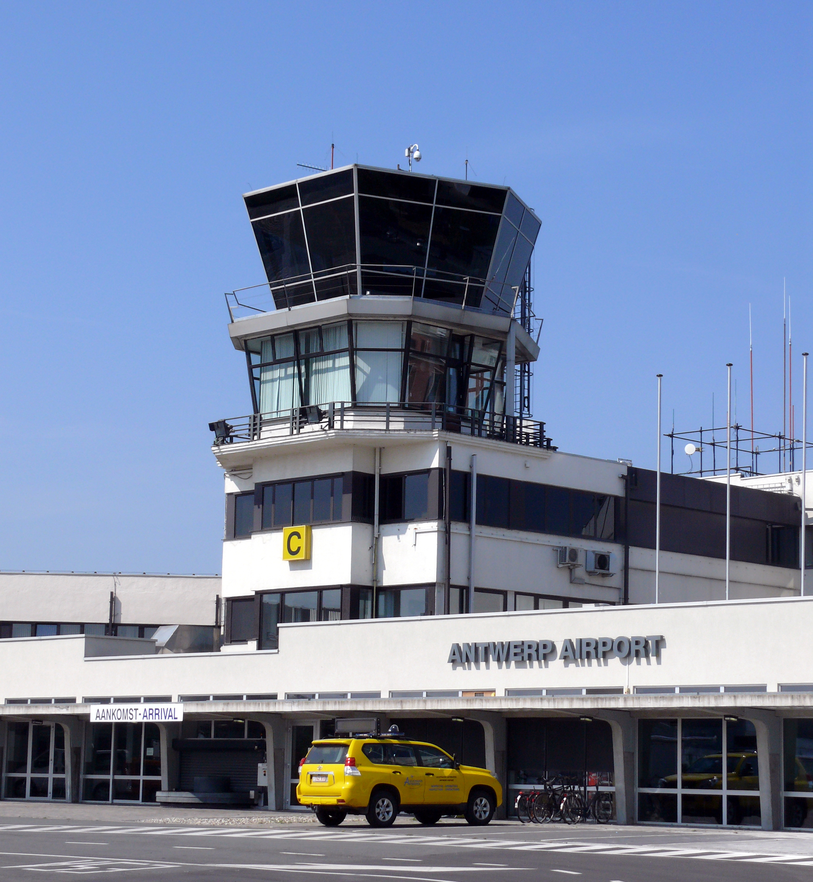 Airport tower of Antwerp International Airport also known as Deurne Airport.